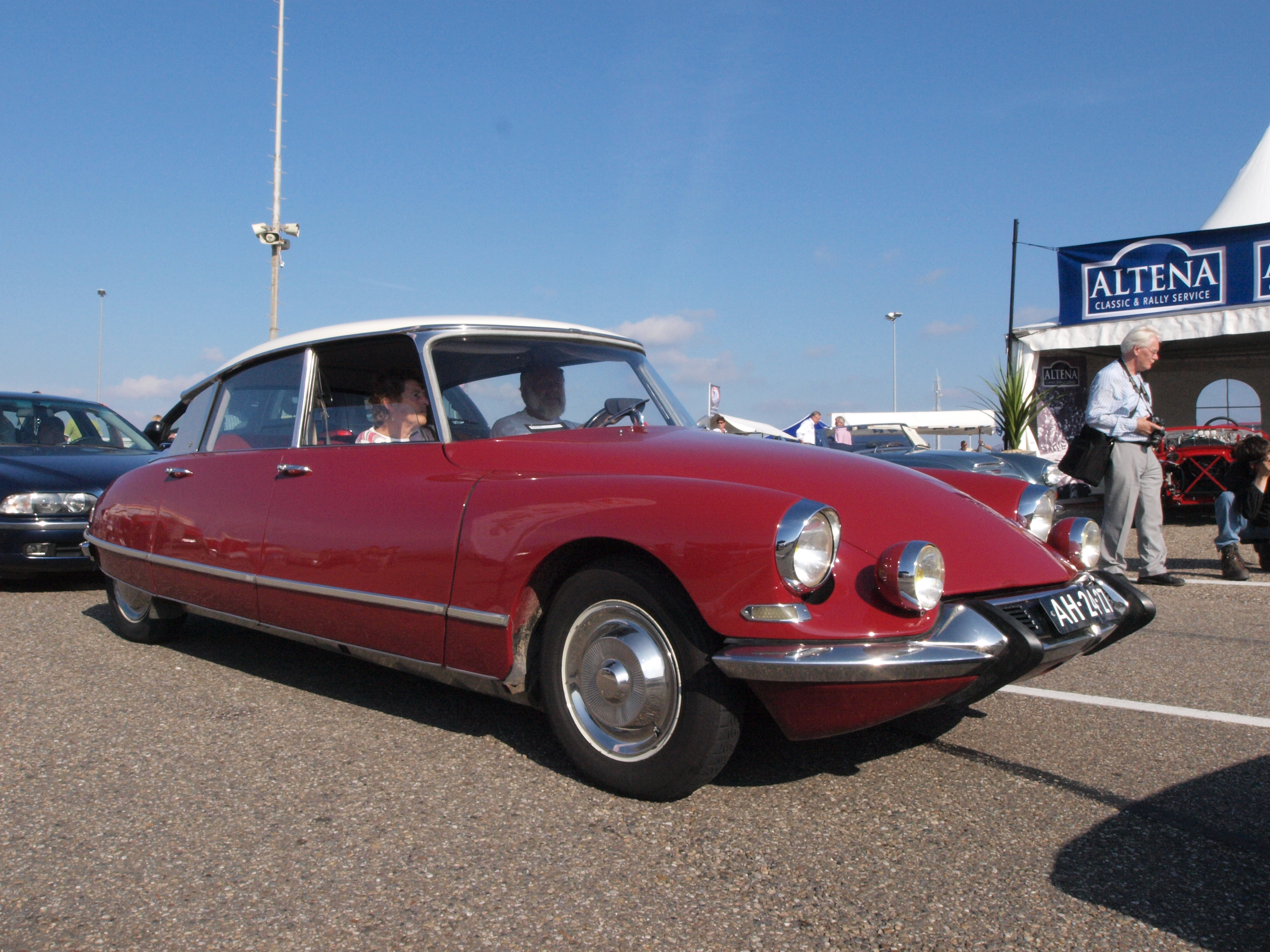 Photographed at the Nationaal Oldtimer Festival Zandvoort 2009, The Netherlands. OLYMPUS DIGITAL CAMERA